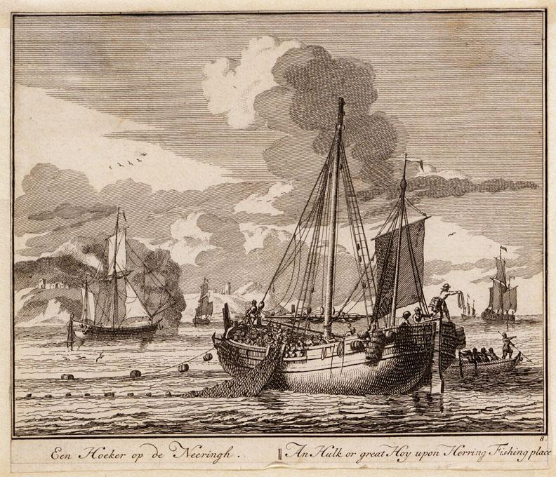 An hulk of great hoy upon Hering fishing place